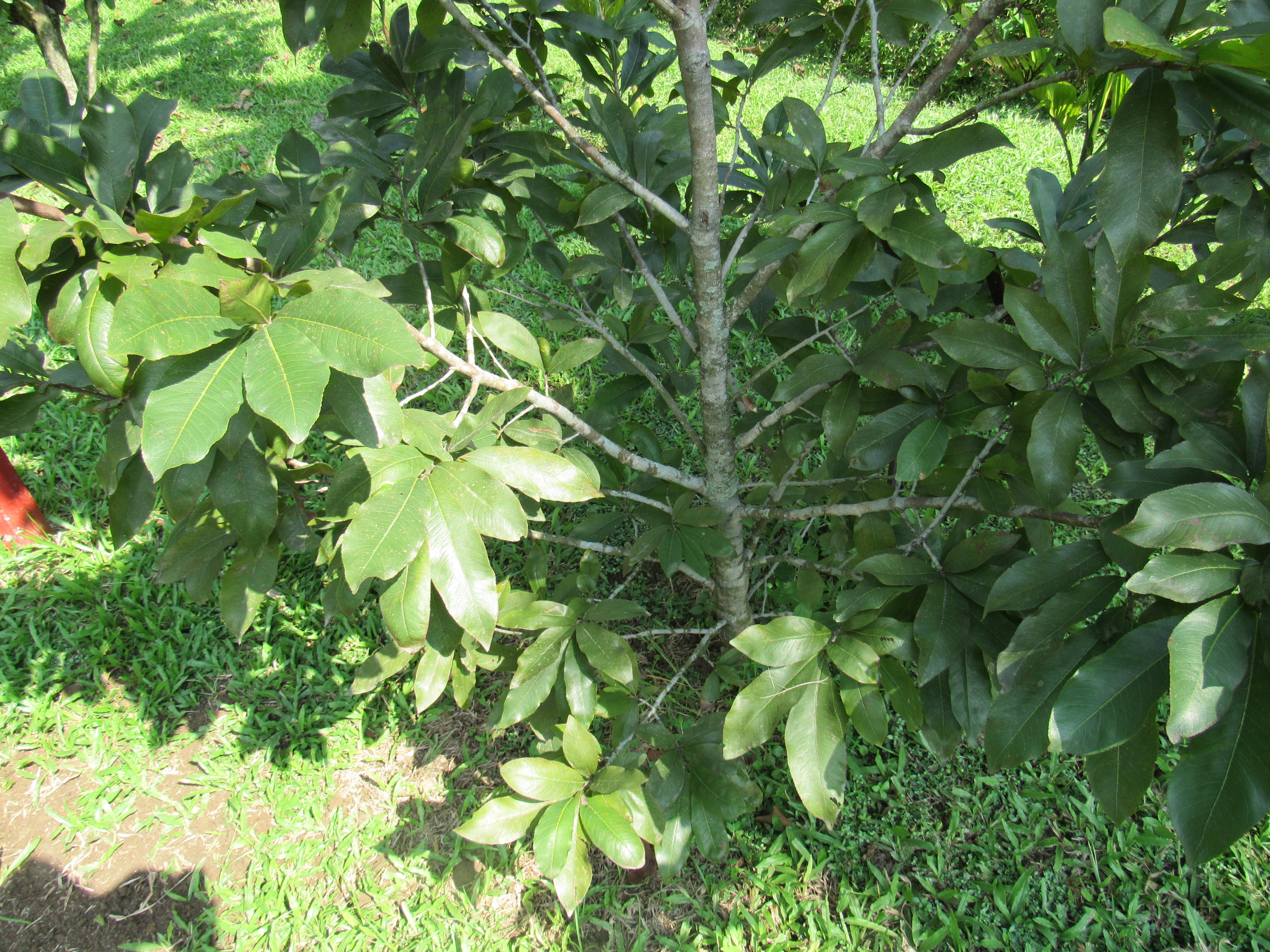 Pistacia vera (Pistachio) tree in the Rural Development Academy, Bogra (Bangladesh)